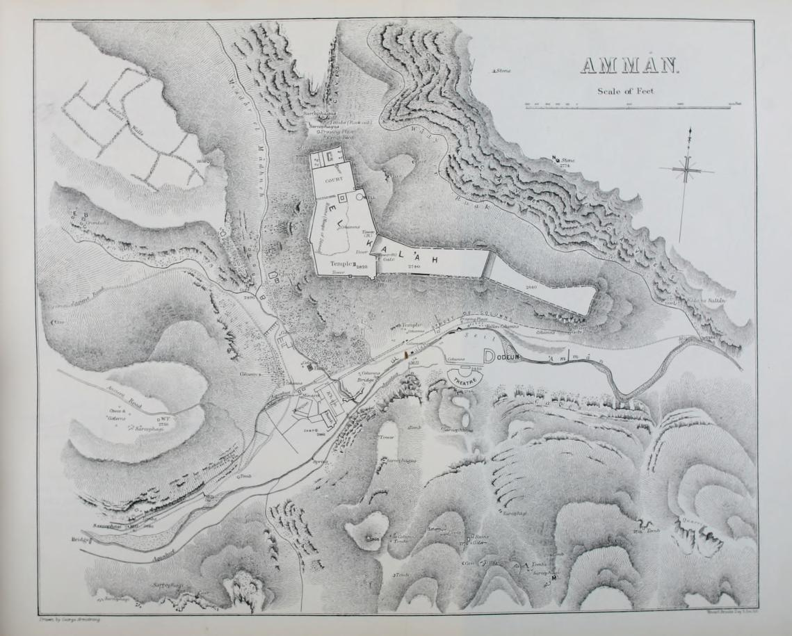 Amman 1889 map